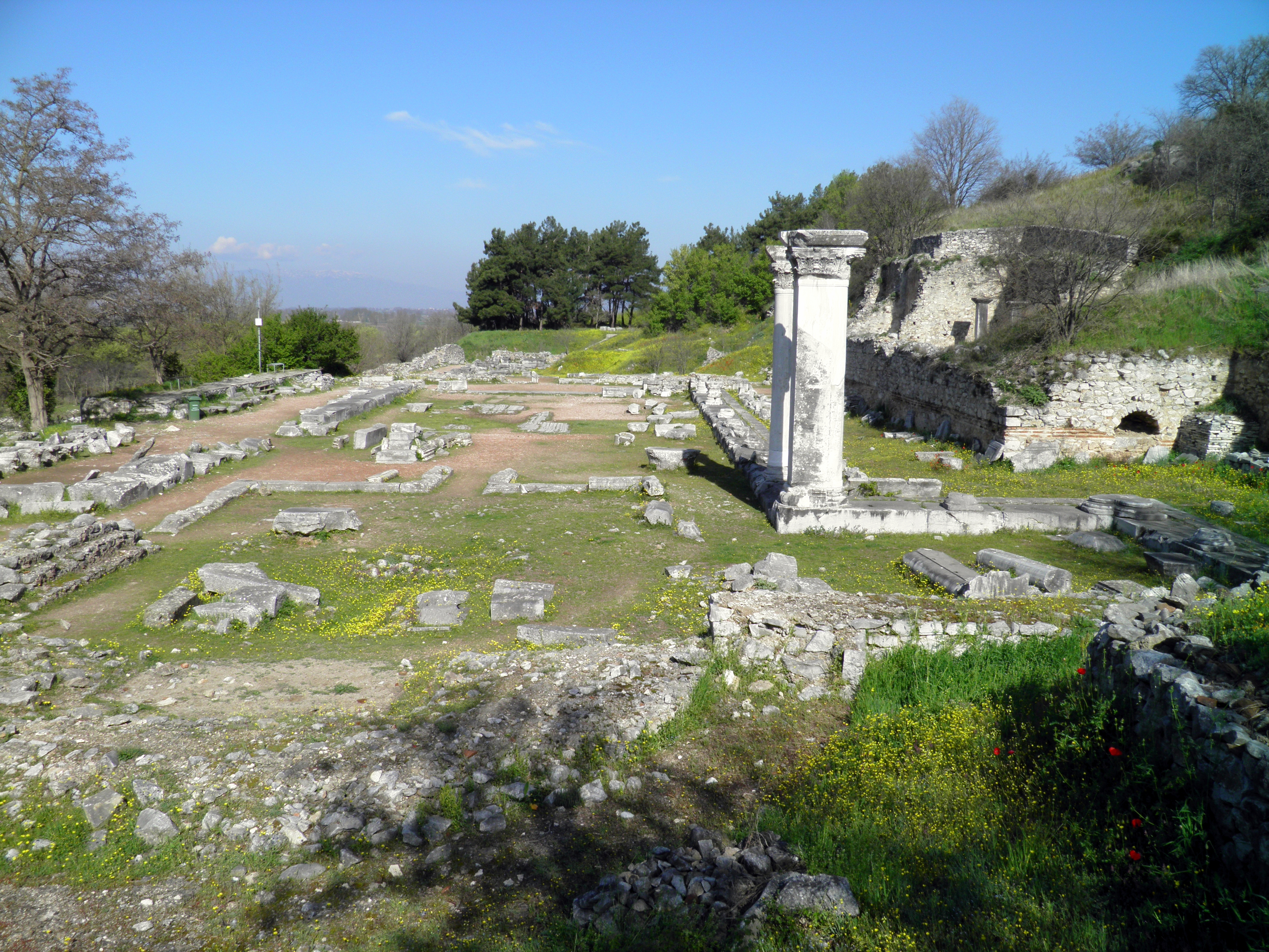 Ruins of a large three-aisled early christian Basilica (Basilica A), end of 5th century AD, Philippi